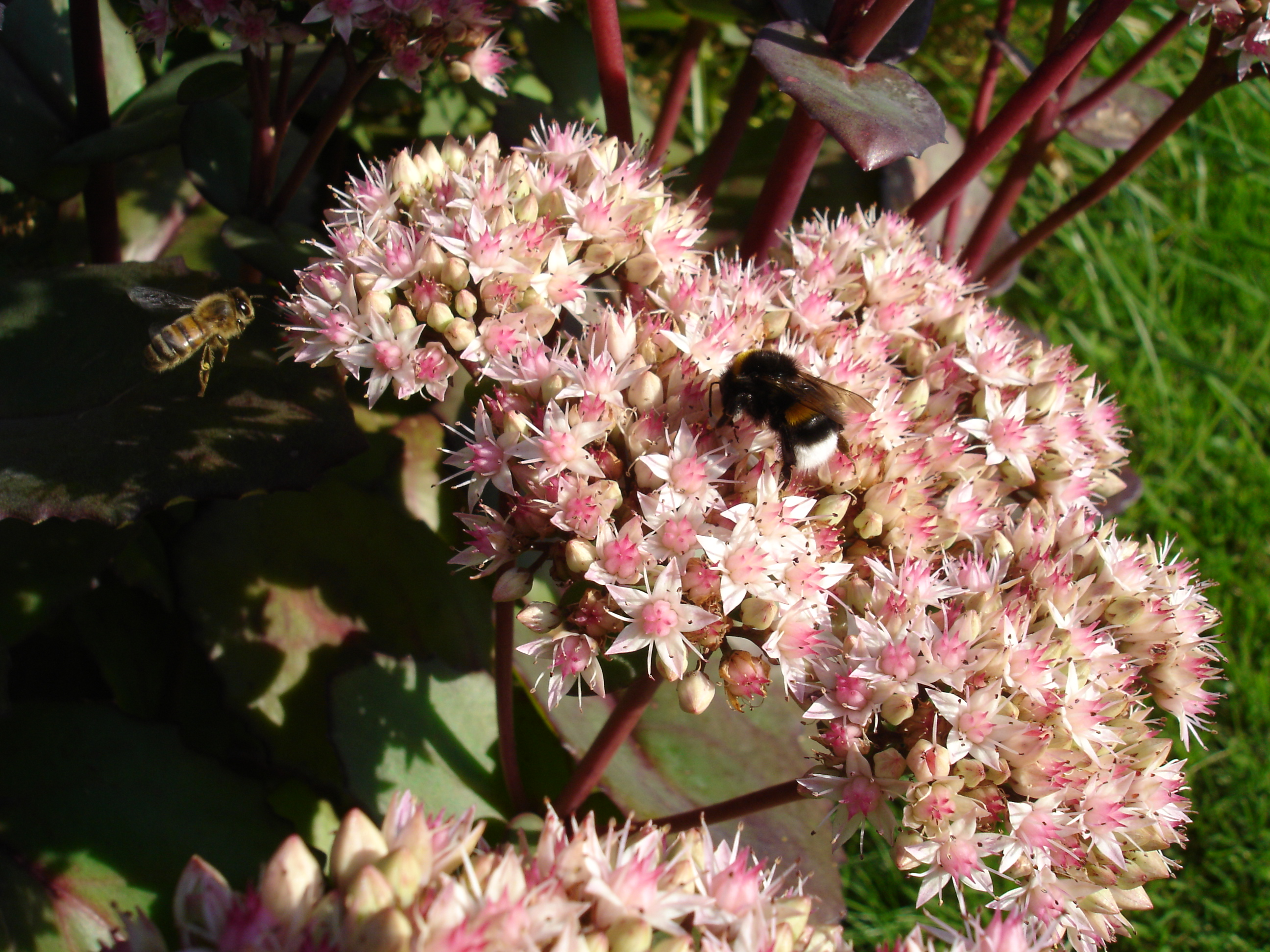 A bumblebee (Bombus species), and a honey bee, pollinating a Hylotelephium 'Matrona (a succulent cultivar). PLANT NAME IN OTHER LANGUAGES: Smørbukk (Norwegian), Almindelig Sanct Hansurt (Danish), Isomaksaruoho (Finnish), Große Fetthenne (German). WHERE AND WHEN: Trädgårdsföreningen, Gothenburg, Sweden. 2005-09-06 16:19. KEYWORDS: pollination, entomophily, bombus, apidae, apinae, apinini, orpine, hylotelephium CAMERA: Sony Cybershot DSC-W1 which has 5.1 megapixels. PHOTOGRAPHER: Martin Olsson (mnemo on wikipedia and commons, ). LICENSE: This image is published on Wikipedia Commons by Martin Olsson under the GNU Free Documentation License (GFDL).